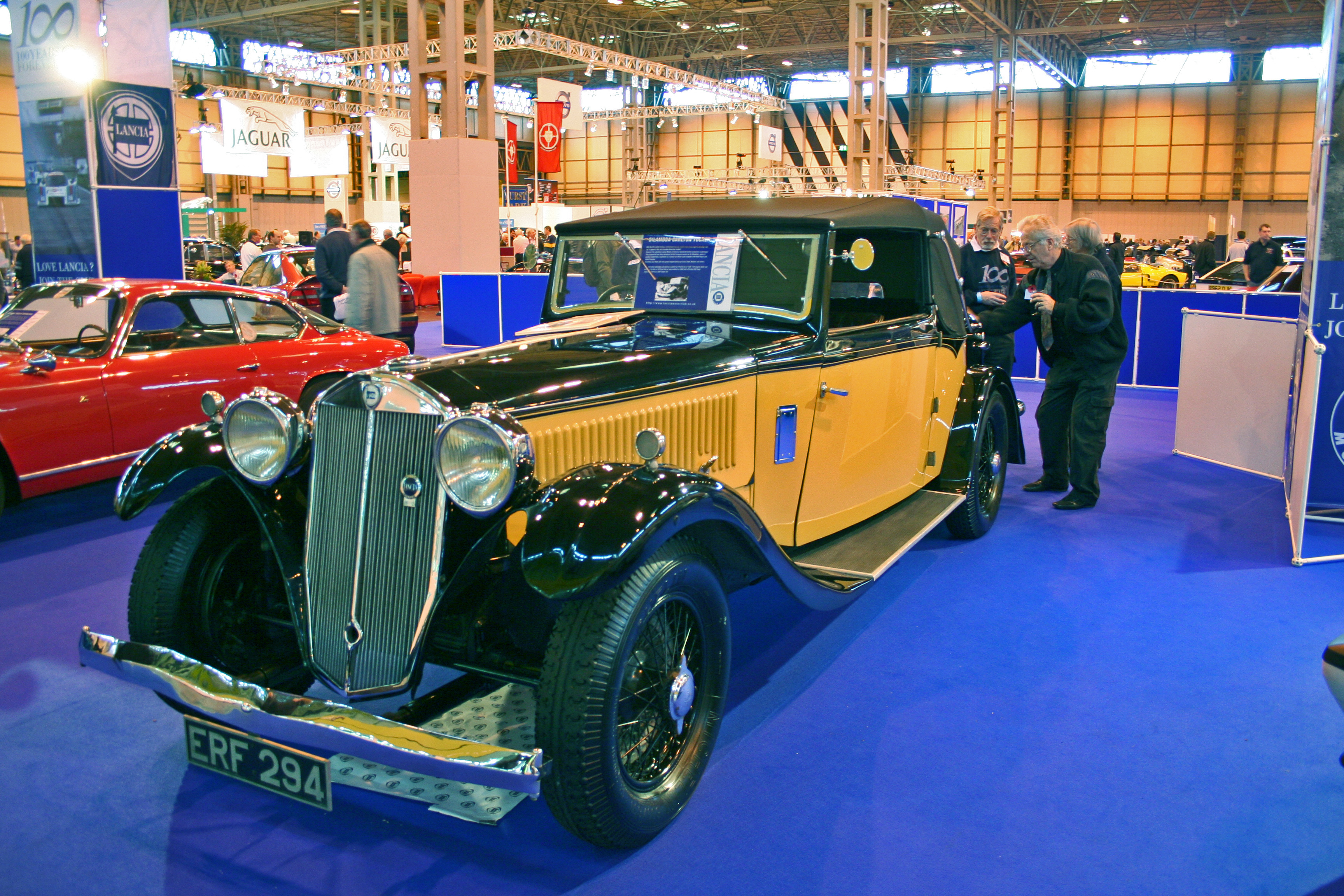 Lancia Dilambda Carlton Tourer 1930 2007 NEC Classic Car Show